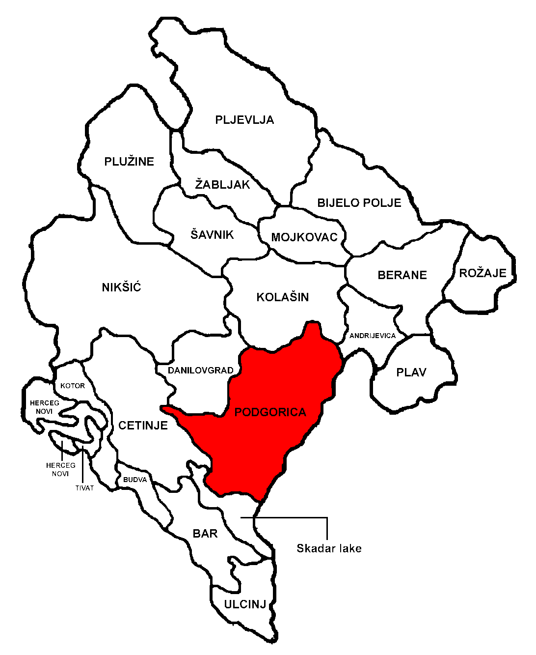 Location of Podgorica within Montenegro